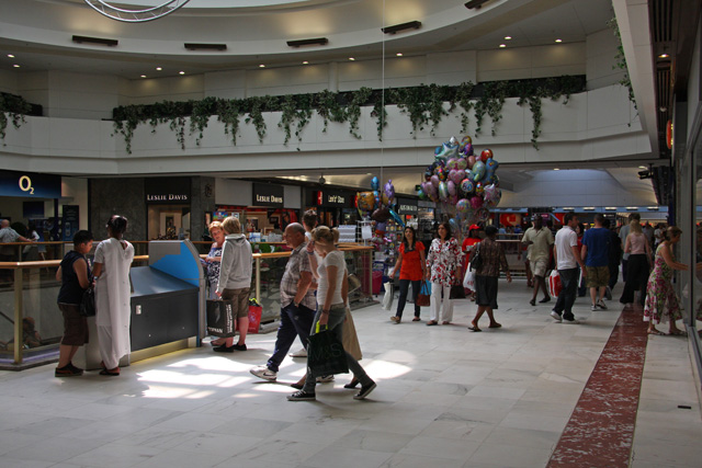 Brent Cross Sunday shoppers inside Brent Cross. There are shops here to suit most people's needs and the air-conditioning makes for a pleasant experience on a hot day.